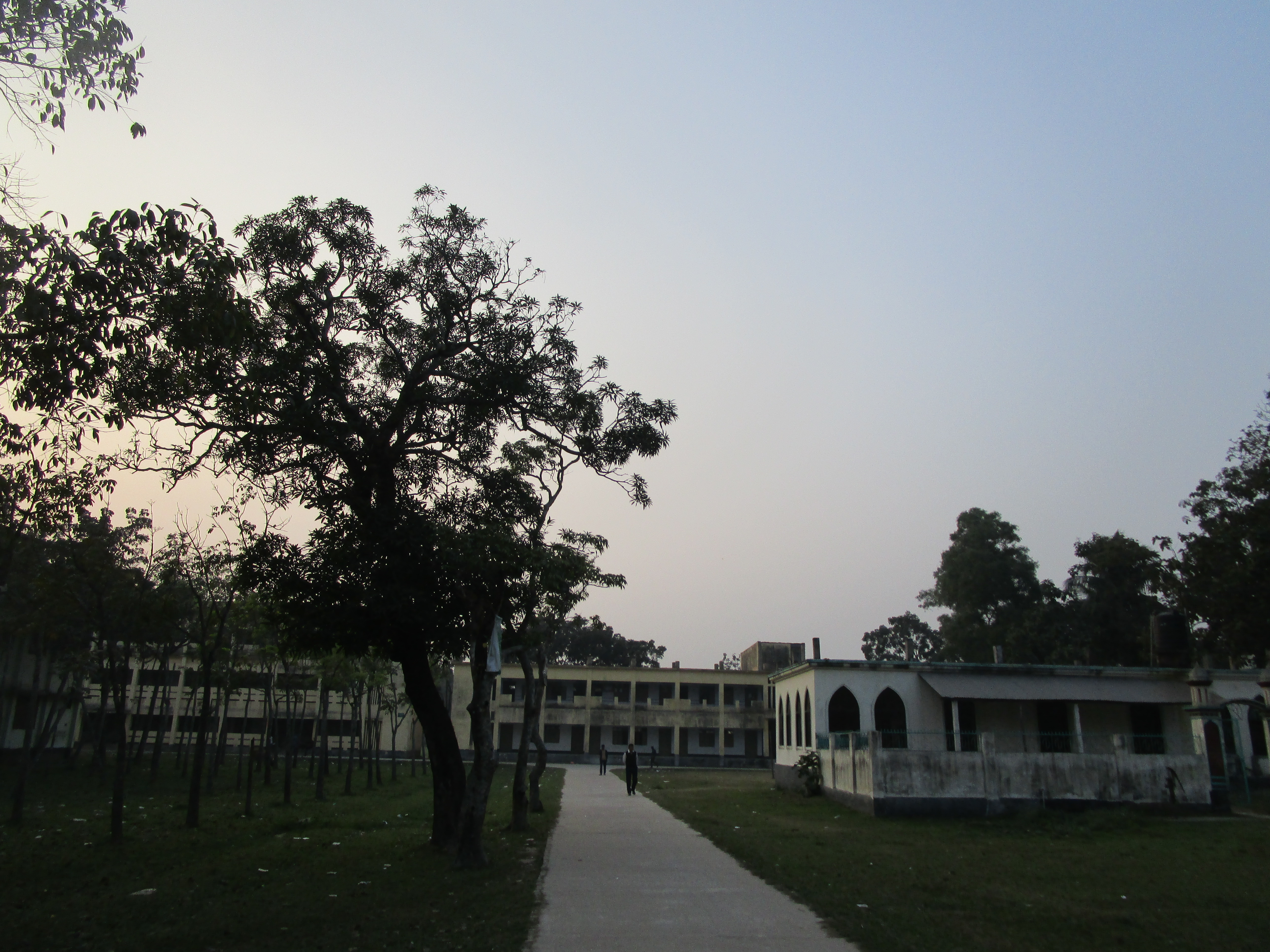 Sherpur Govt College building